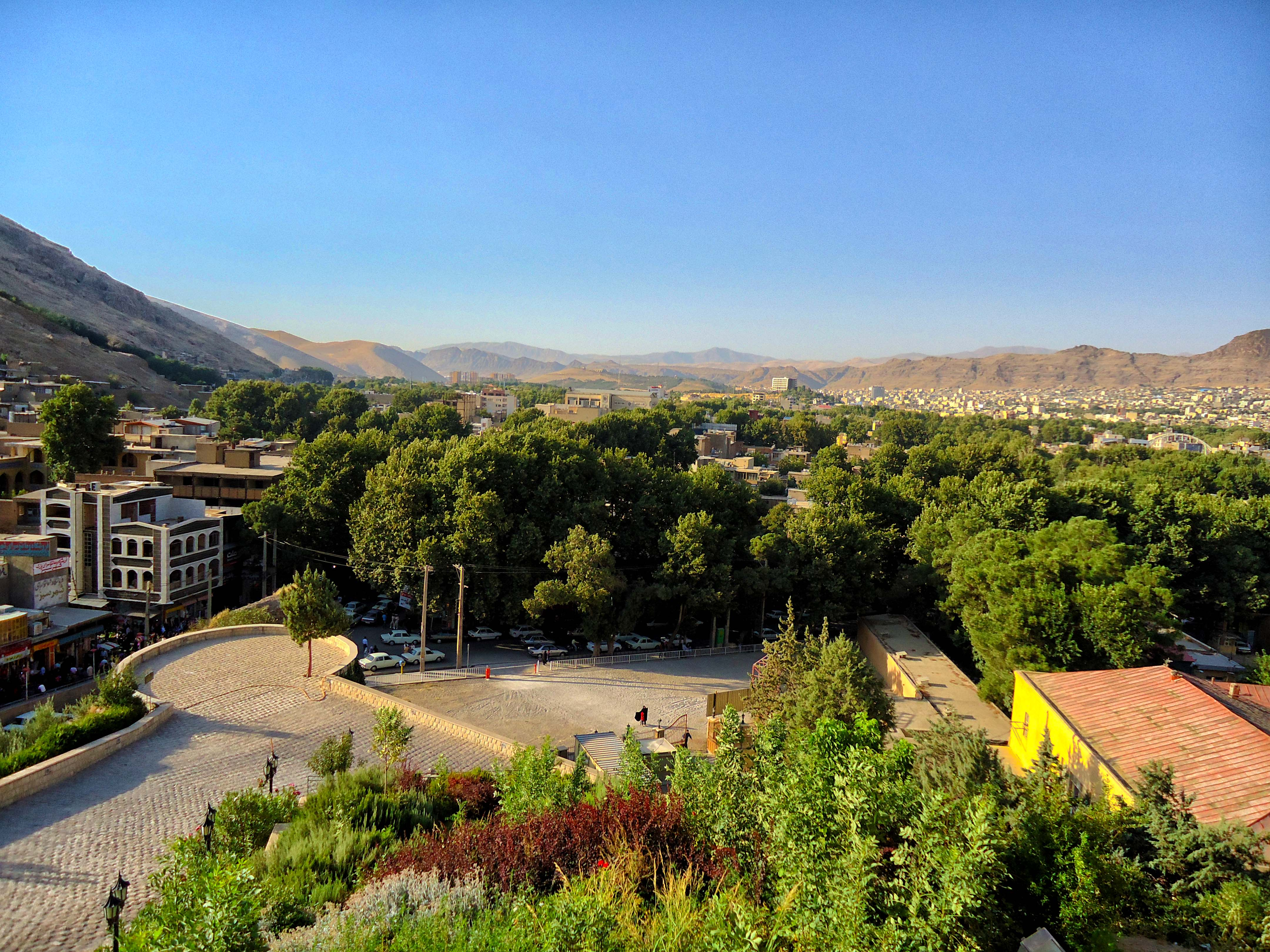 A view of KhorramAbad form Falak-al-alflak castle